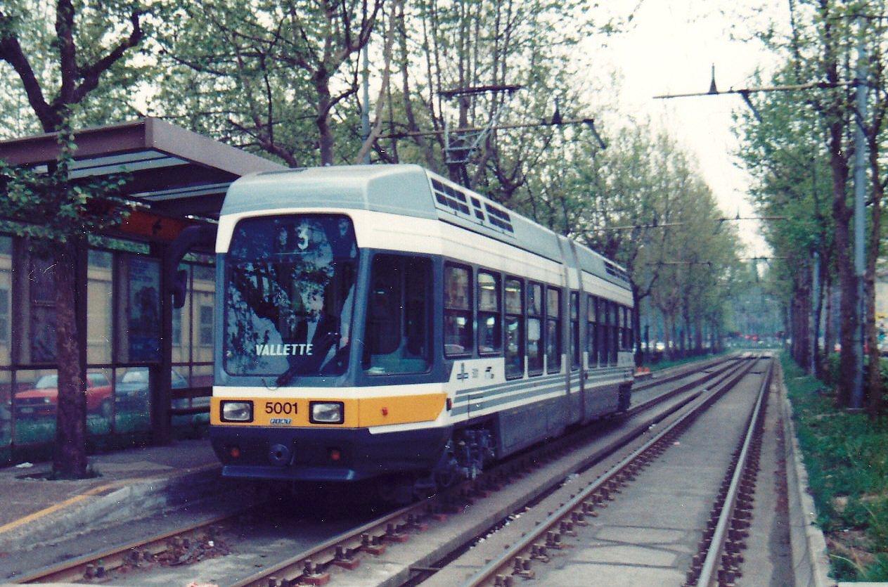 ATM Torino tram n.5001